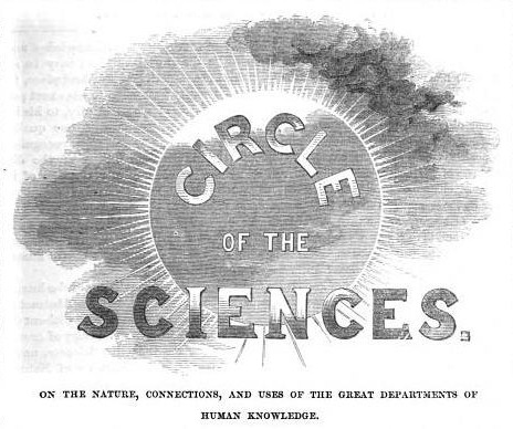 Illustration from the first volume of Orr's Circle of the Sciences, a science encyclopedia published in London.